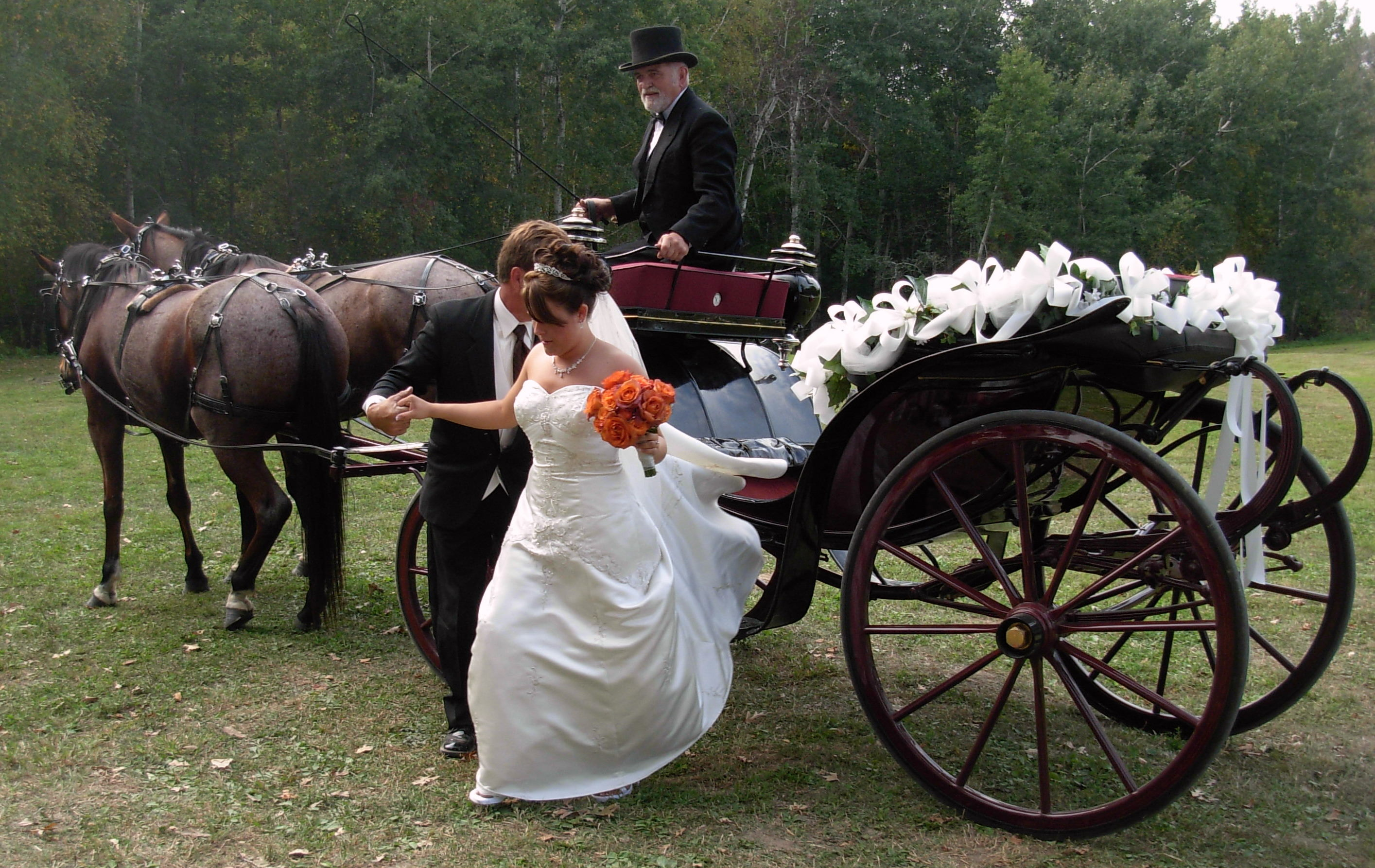 Bride in a white dress descends from an open horse-drawn carriage decorated with ribbons at a wedding in Minnesota.